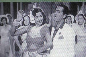 Screen capture of Egyptian film Afrita Hanem taken from a still